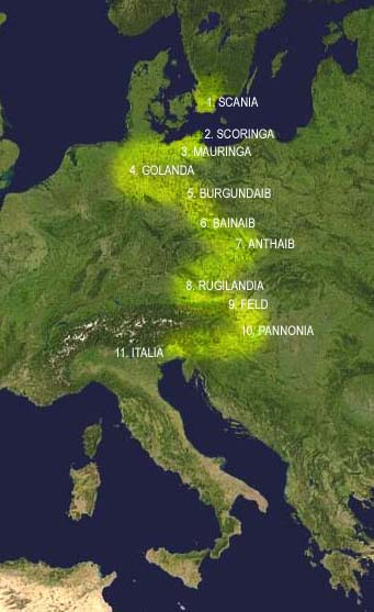 Migration of Lombards from Scania to Italy, I century BC- VI century AD. According to Lidia Capo (ed.) Paulus Diaconus' Historia Langobardorum, Mondadori 1992, map 1.